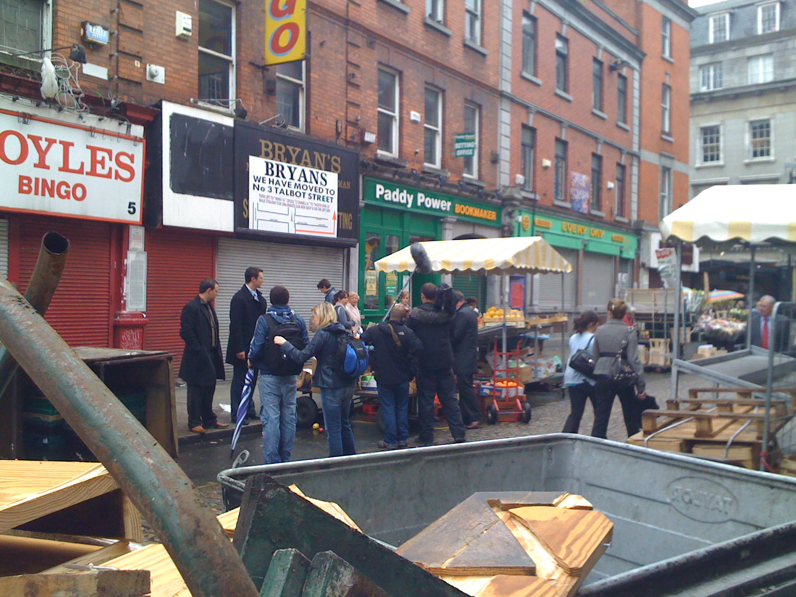 Filming of the 2008 Series of the Apprentice in Ireland in Moore Street, Dublin